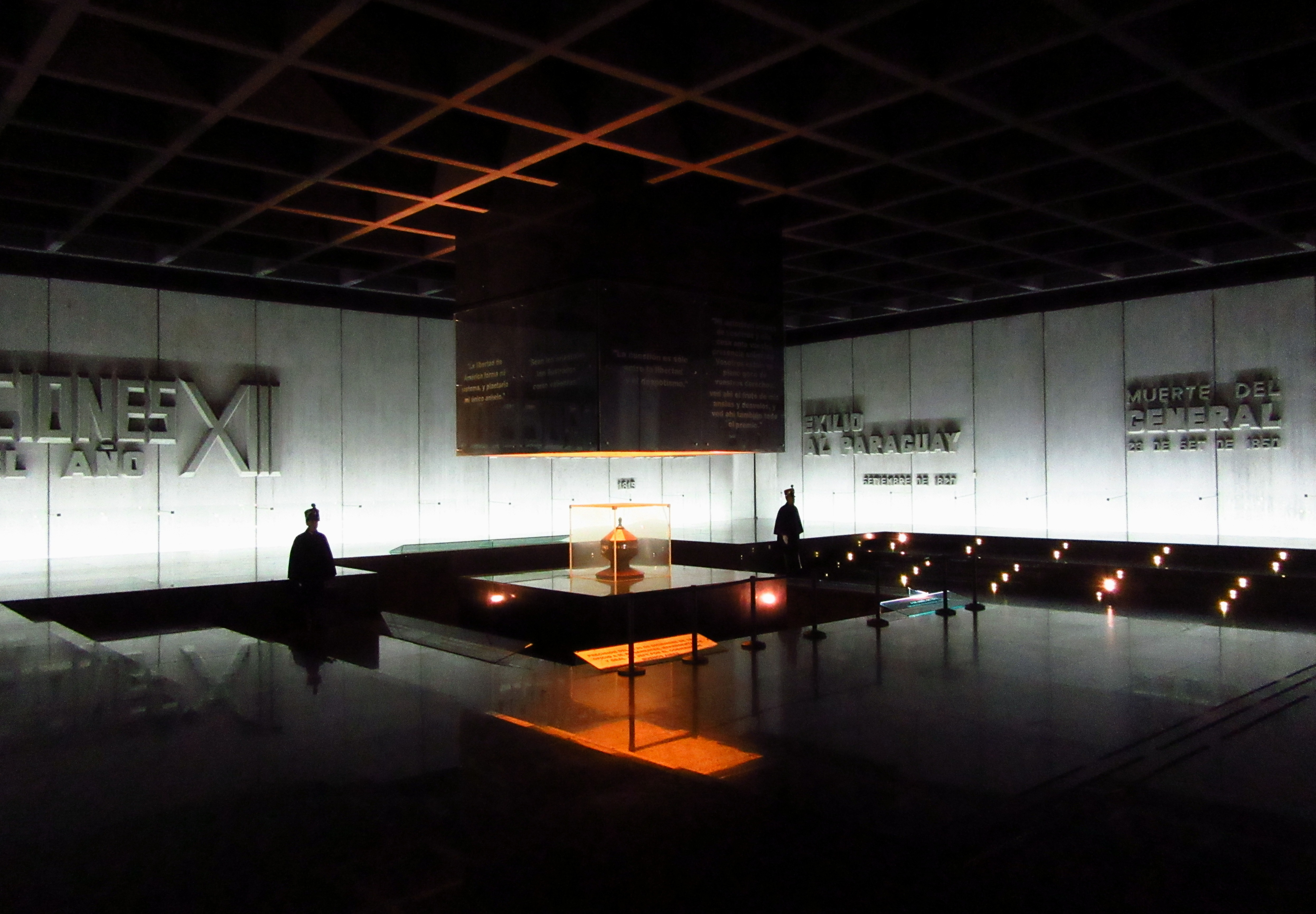 Montevideo